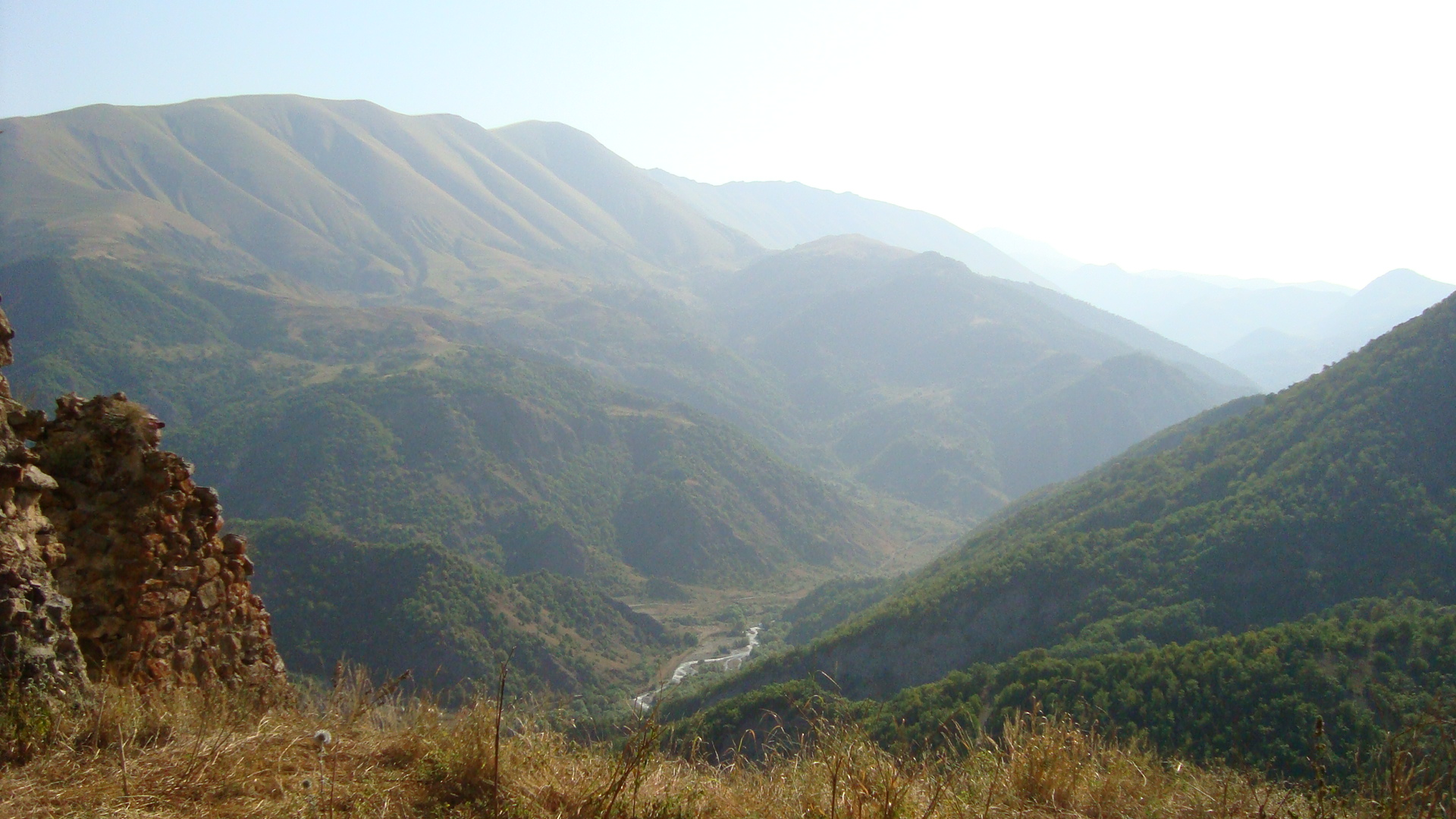 Levonaget river in Shahumian district, Republic of Mountainous Karabakh (Azerbaijan).